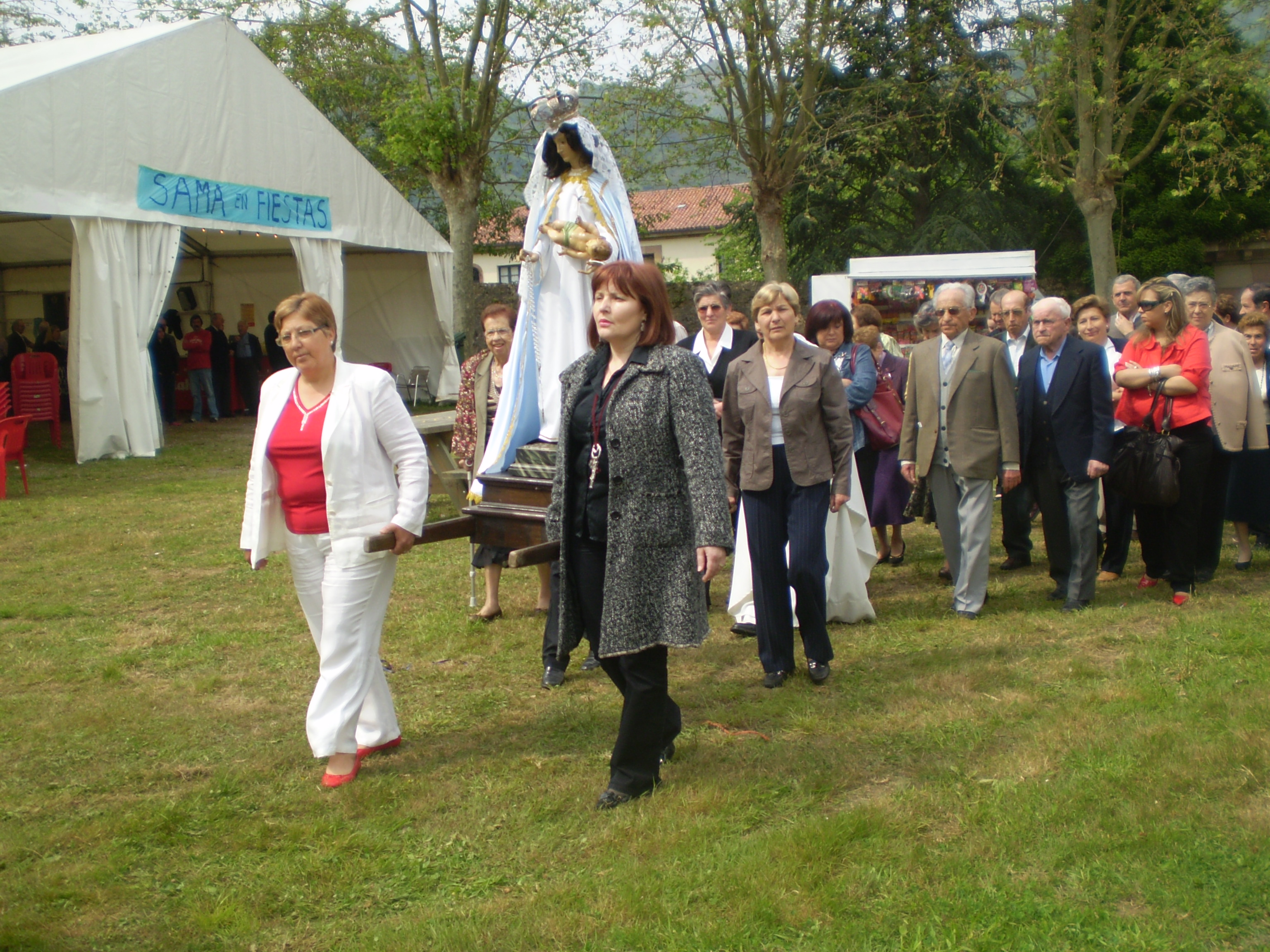 procesión